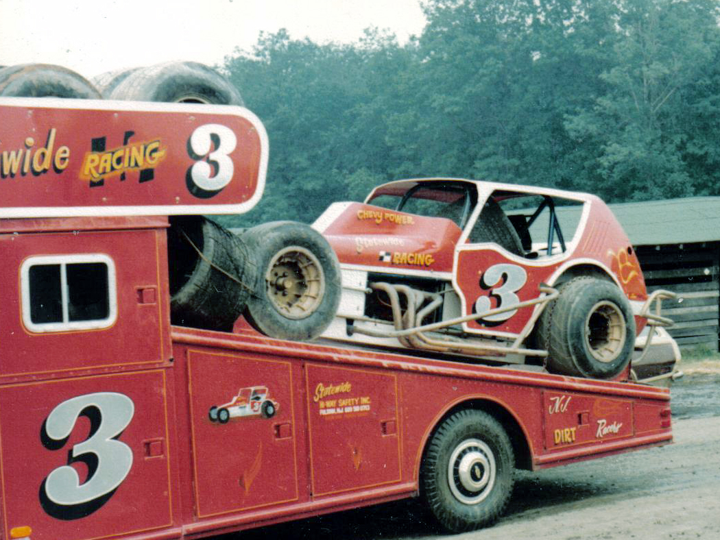 Jimmy Horton's Dirt Modified racecar. In those days before enclosed trailers for dirt cars, this was considered top of the line hauler. Times have changed.